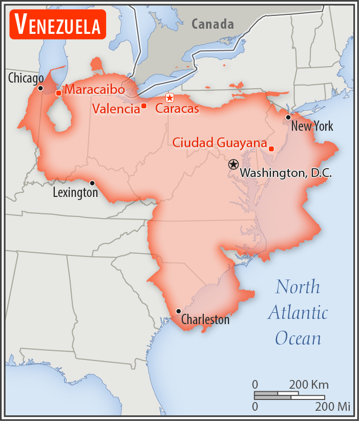 Comparison of the areas of two country. The area of Venezuela with biggest cities (red) overlay the area of the United States of America (gray background).